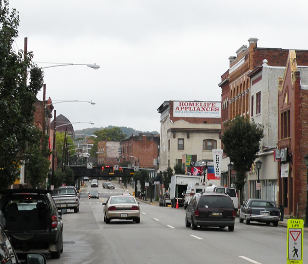 Picture of Chartiers Avenue in McKees Rocks, Pennsylvania, on October 17, 2009.